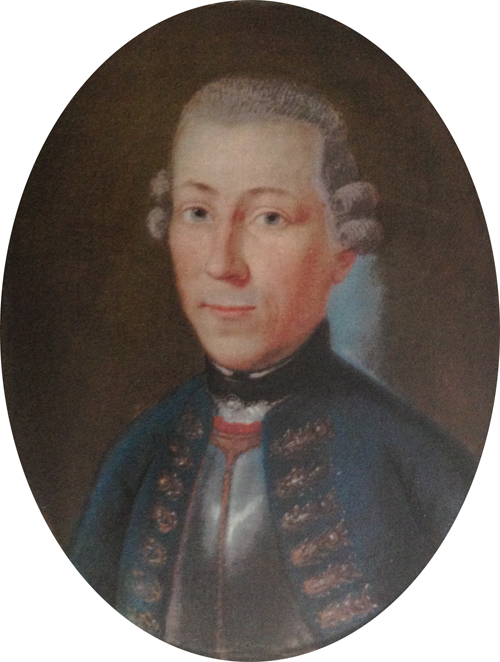 August Wilhelm von Mosch, painting by Bardou, ca.1771